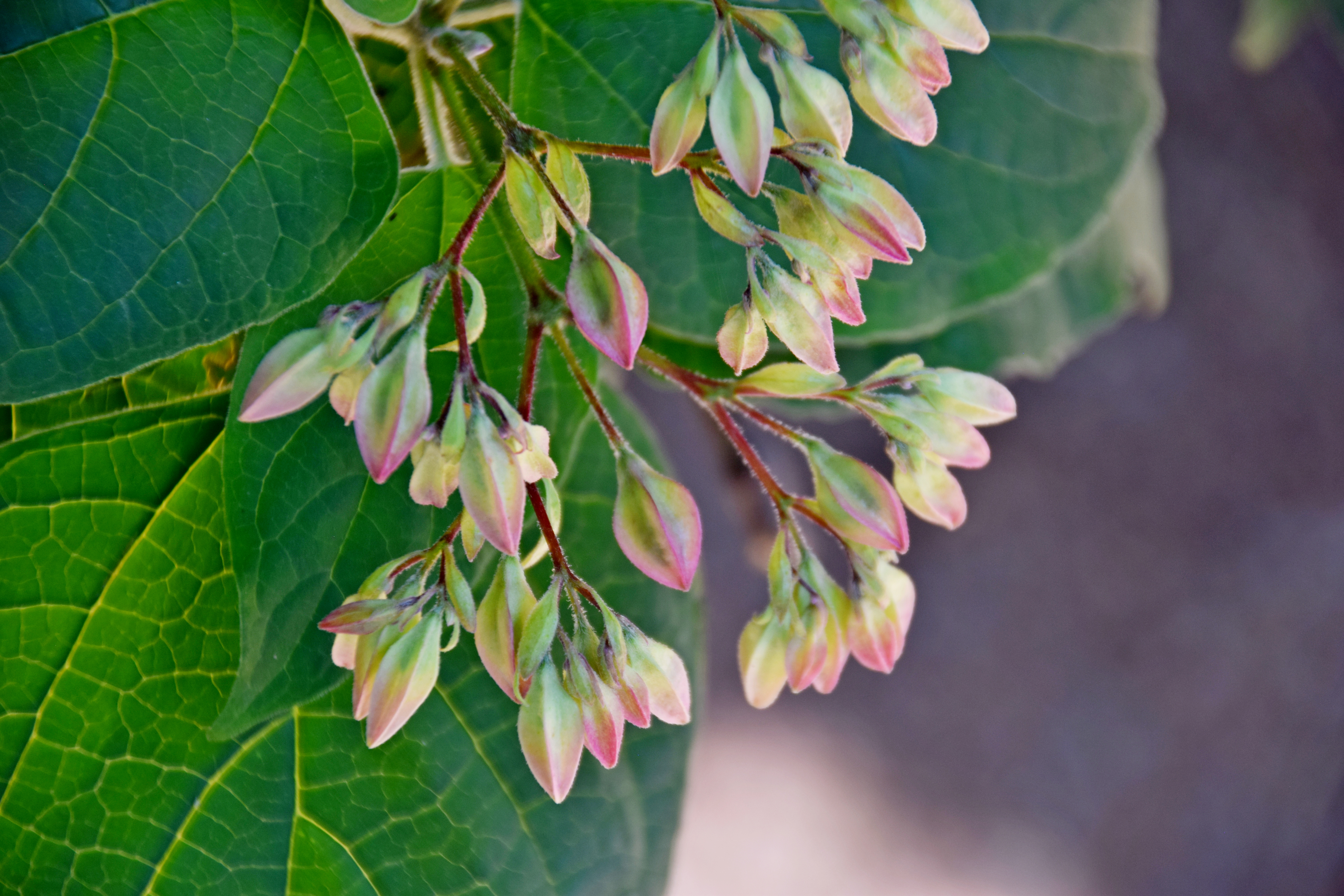 Clerodendrum trichotomum var. fargesii in Jardin botanique de la Charme, Clermont-Ferrand, France